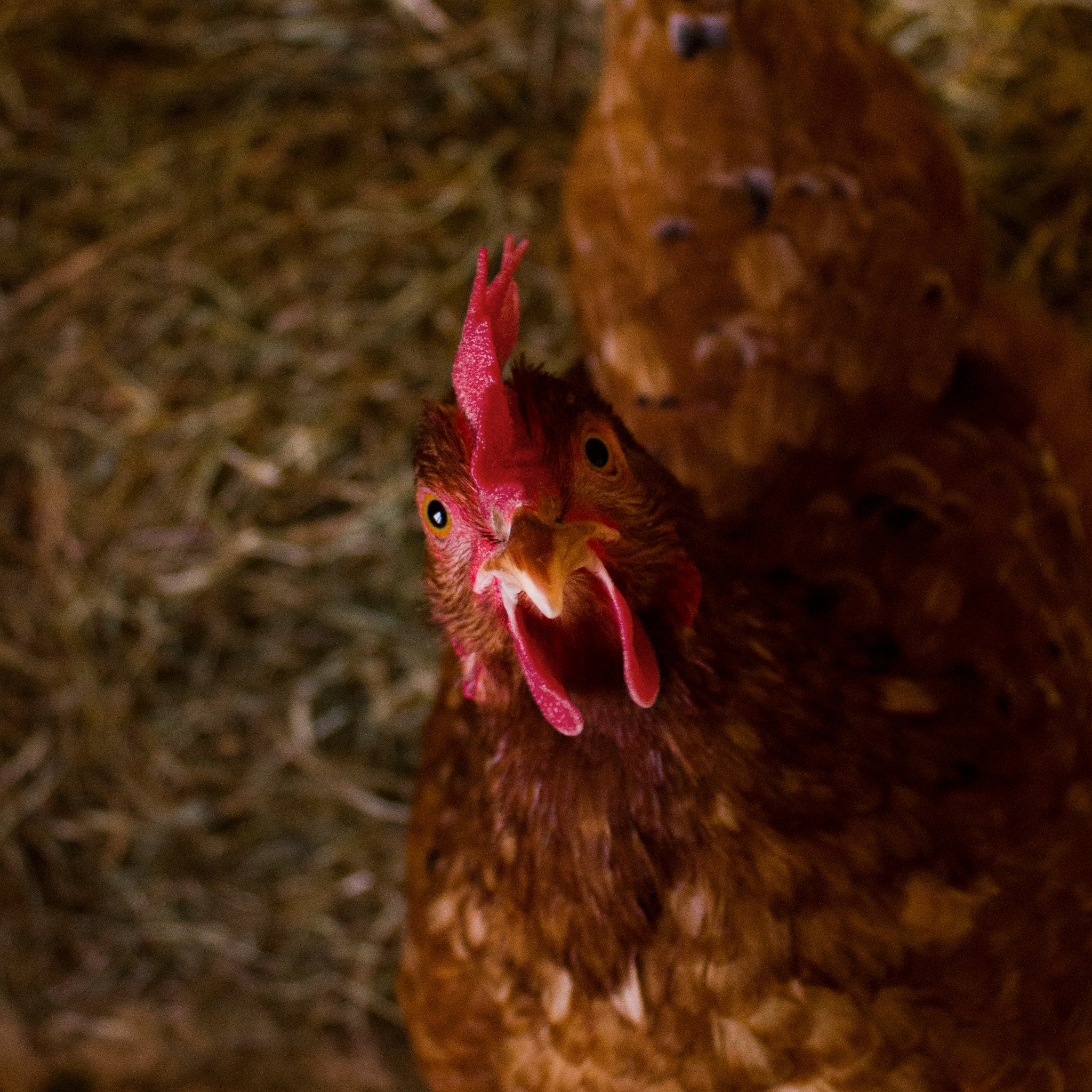 An ISA Brown